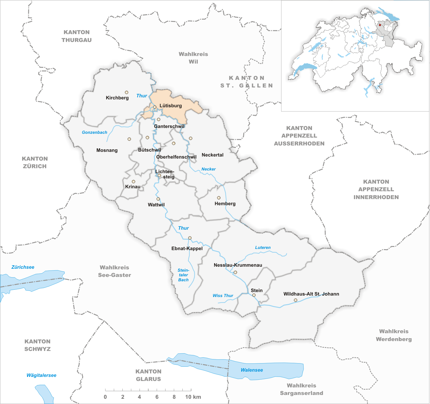 Municipality Lütisburg